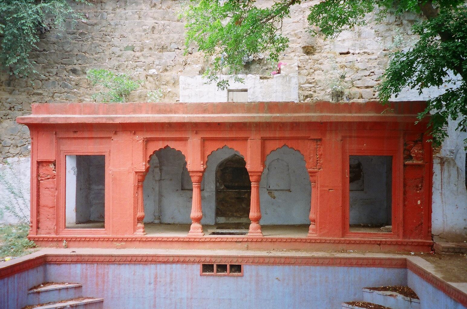 Jharna pavilion below the Hauz-i-Shamsi